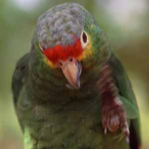 Amazona autumnalis. Originally listed under the mistaken ID of Amazona farinosa.